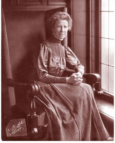 Portrait of Alice Moore Hubbard